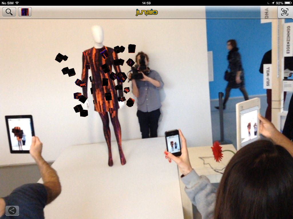 Augmented reality dress designed by Marga Weimans and developed in cooperation with AugmentNL (Sander Veenhof & Luciano Pinna) nominated for Rotterdam Designprijs as part of "Body Archive" collection